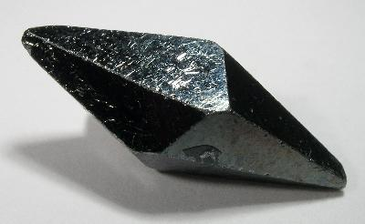 Hematite Locality: Hormuz Island (Jazireh-ye Hormoz; Ormuz Island; Jezirat Hormuz; Hormoz), Hormozgan Province, Iran (Locality at ) One of the sharpest such crystals I have seen, of these strange hematites that seem to have come out, if i recall, about the early 1990s. There were never very many of them. This one is complete all around, a floater! 2 x 0.5 x 0.5 cm